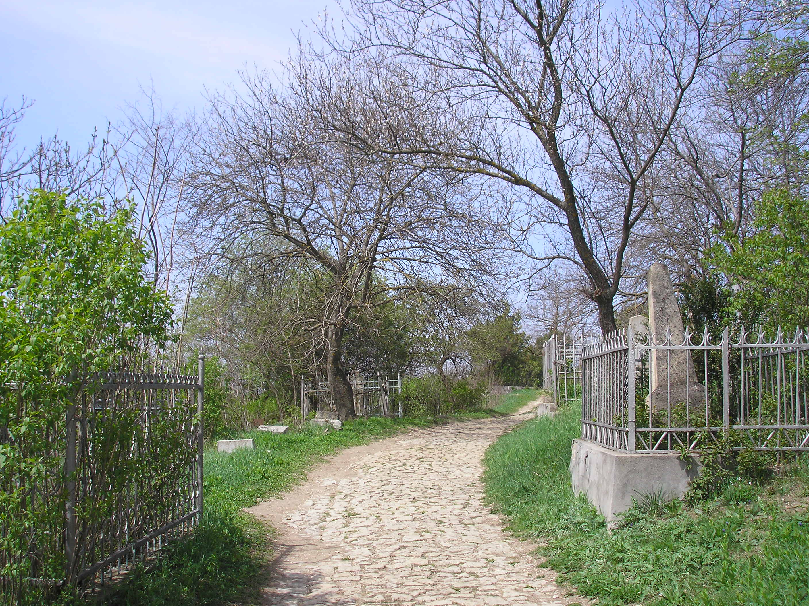 Necropolis in Pyatigorsk, Russia